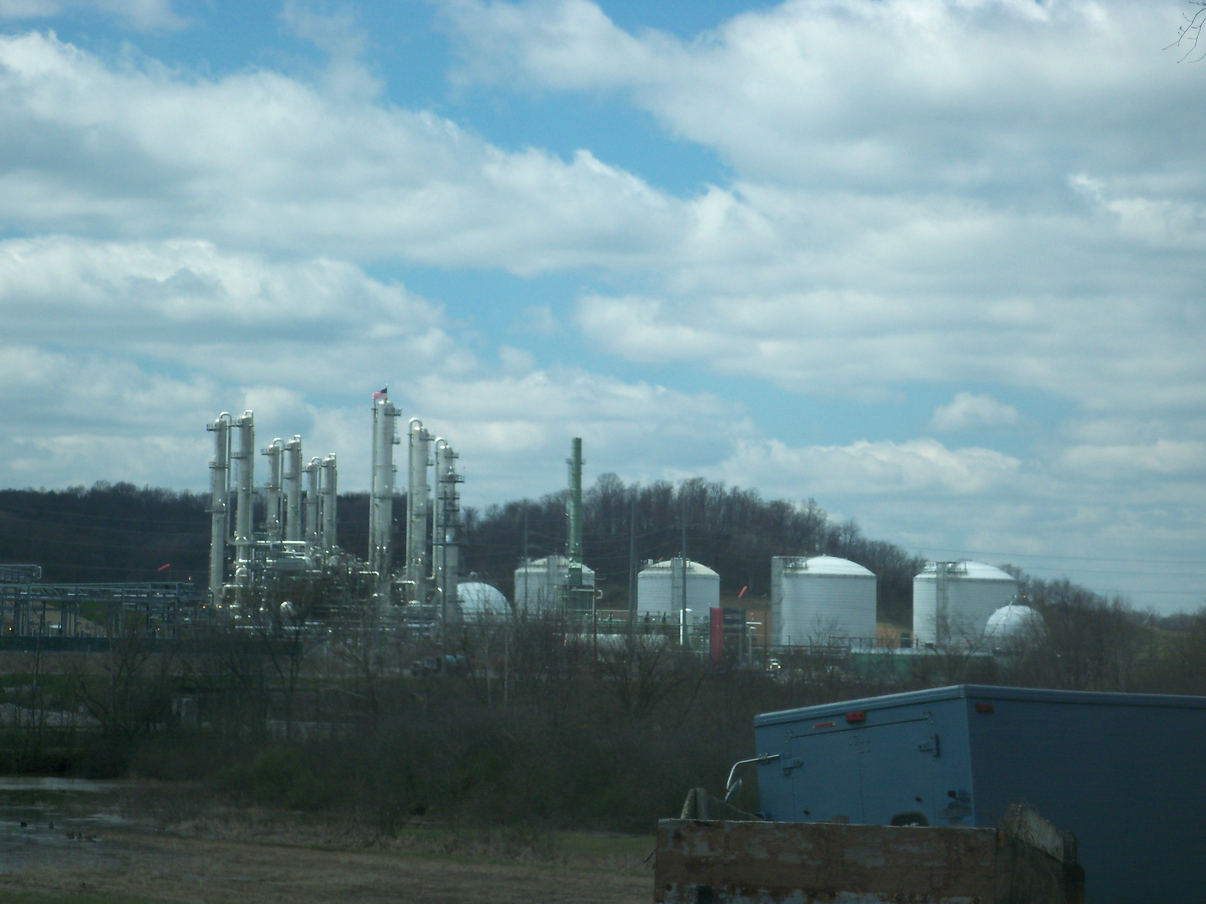 This facility near the corner of Ohio State Route 332 and Ohio State Route 151 is photographed from about 1/2 mile to the east. Natural gas liquids from Utica Shale wells are separated in this facility.